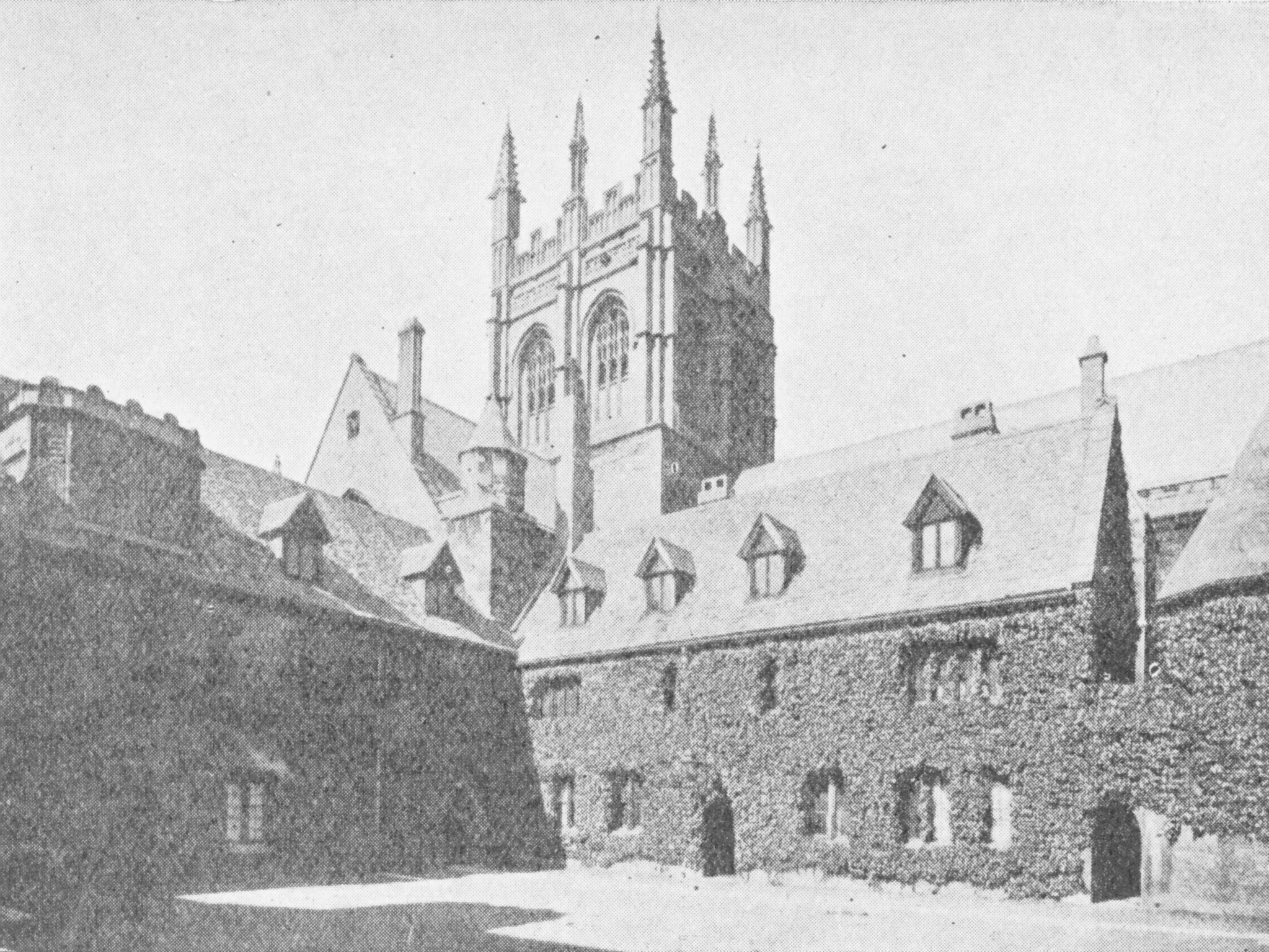 A half-tone photograph of Mob Quad (in Merton College) in 1910. A few things have changed since 1910. The creeper all over the walls has gone: it causes too much damage to the stone. The facing of most of the stone work has been repaired or replaced (including nearly all the Chapel tower). The chimneys (five are visible) have been removed; this is no great loss as they were not original, they still used braziers in the rooms in the 13th century so they did not build chimneys.